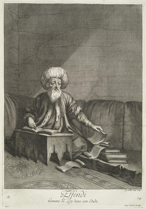 Illustrations of Ottomans by Jean-Baptiste Vanmour, 1707